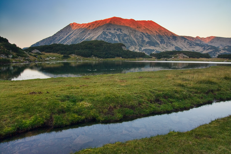 Todorka peak and Muratovo lake (Bulgarian: Муратово езеро)